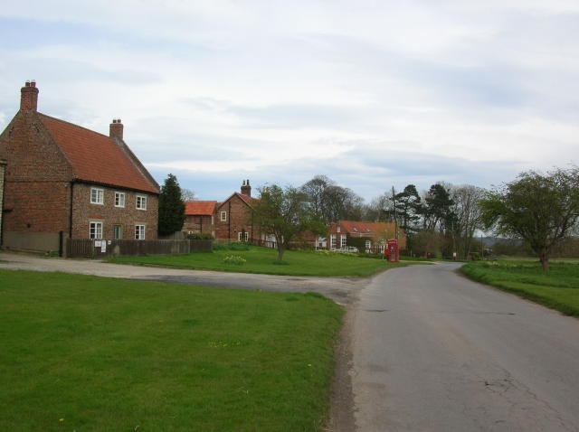 Village of Harton A small village north east of York.